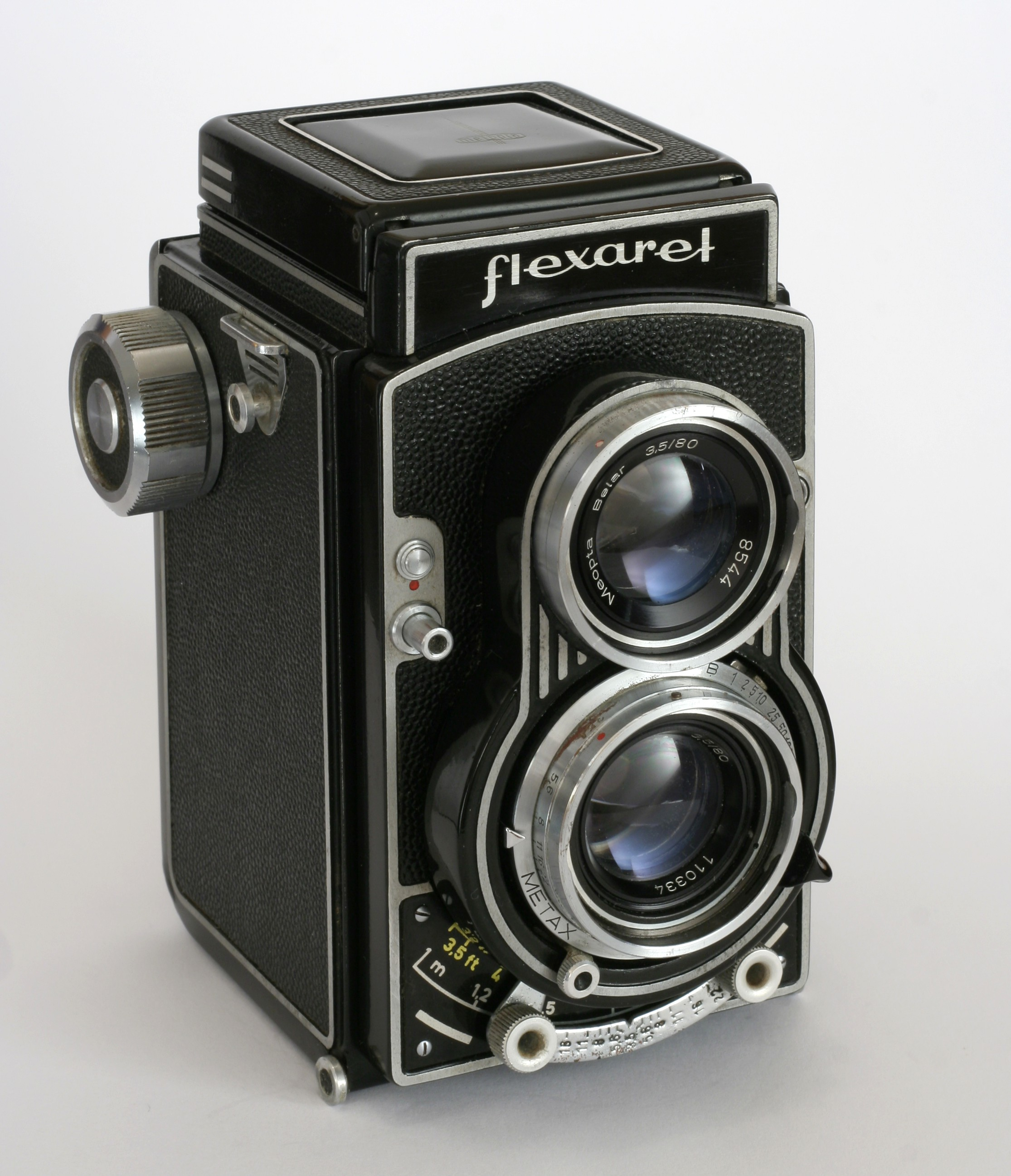 Antique Camera Flexaret Standard